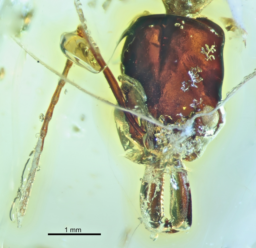 Dorsal view of the Odontomachus pseudobauri holotype worker head. Dominican amber, Burdigalian; Dominican Republic, Hispaniola British Museum of Natural History, specimen BMNHP-II32